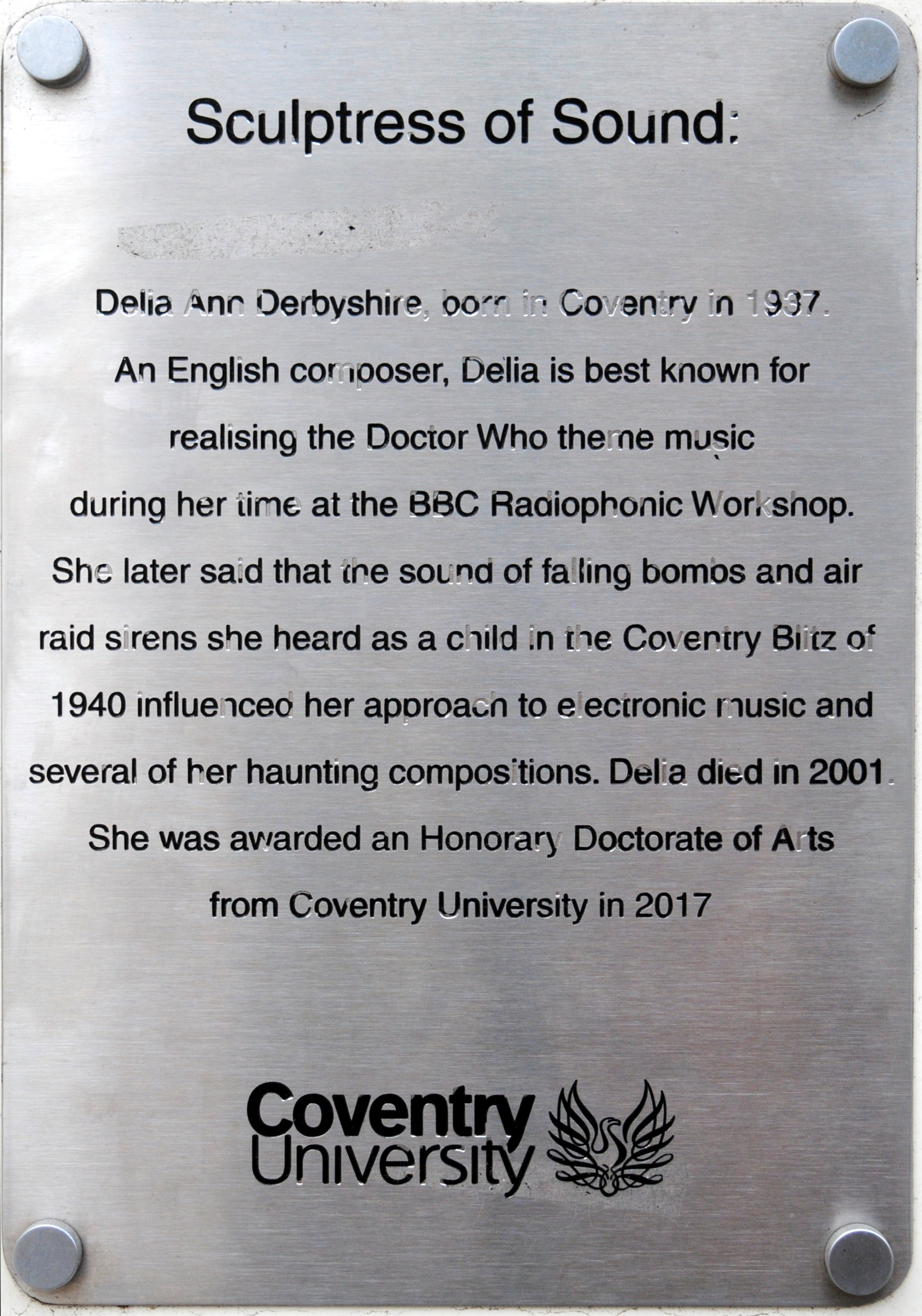 Plaque commemorating Delia Derbyshire, on the Ellen Terry building at Coventry University, England.